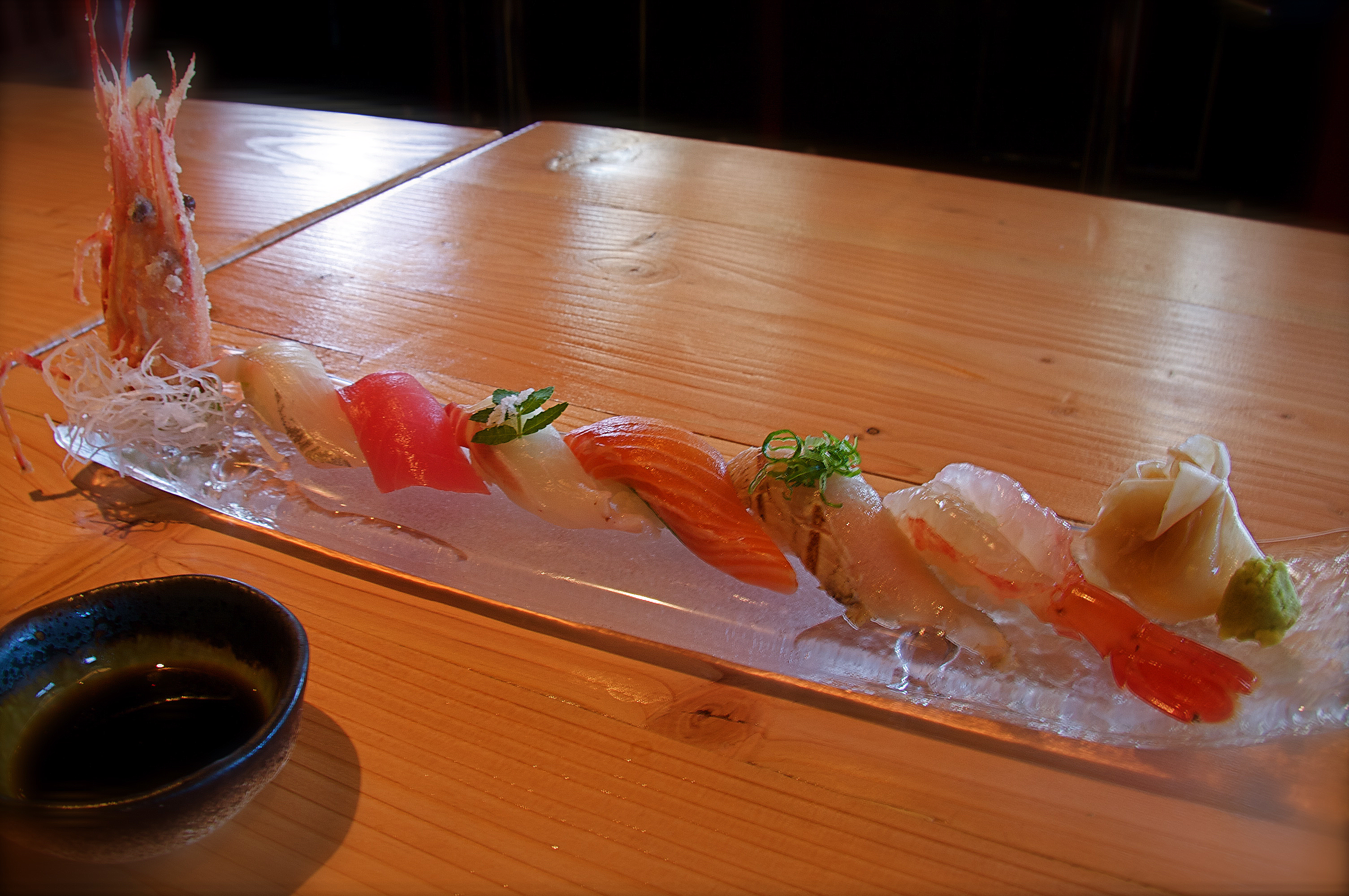 Assorted sushi from Shimbashi Izakaya, San Diego, California.